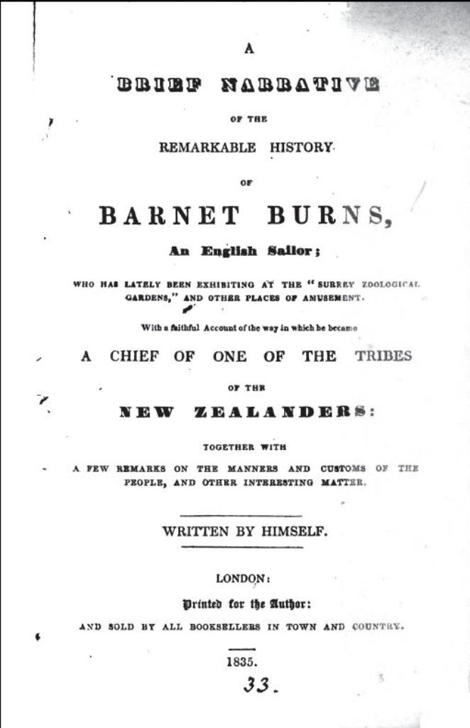 Front page of Barnet Burns book, 1835 London edition